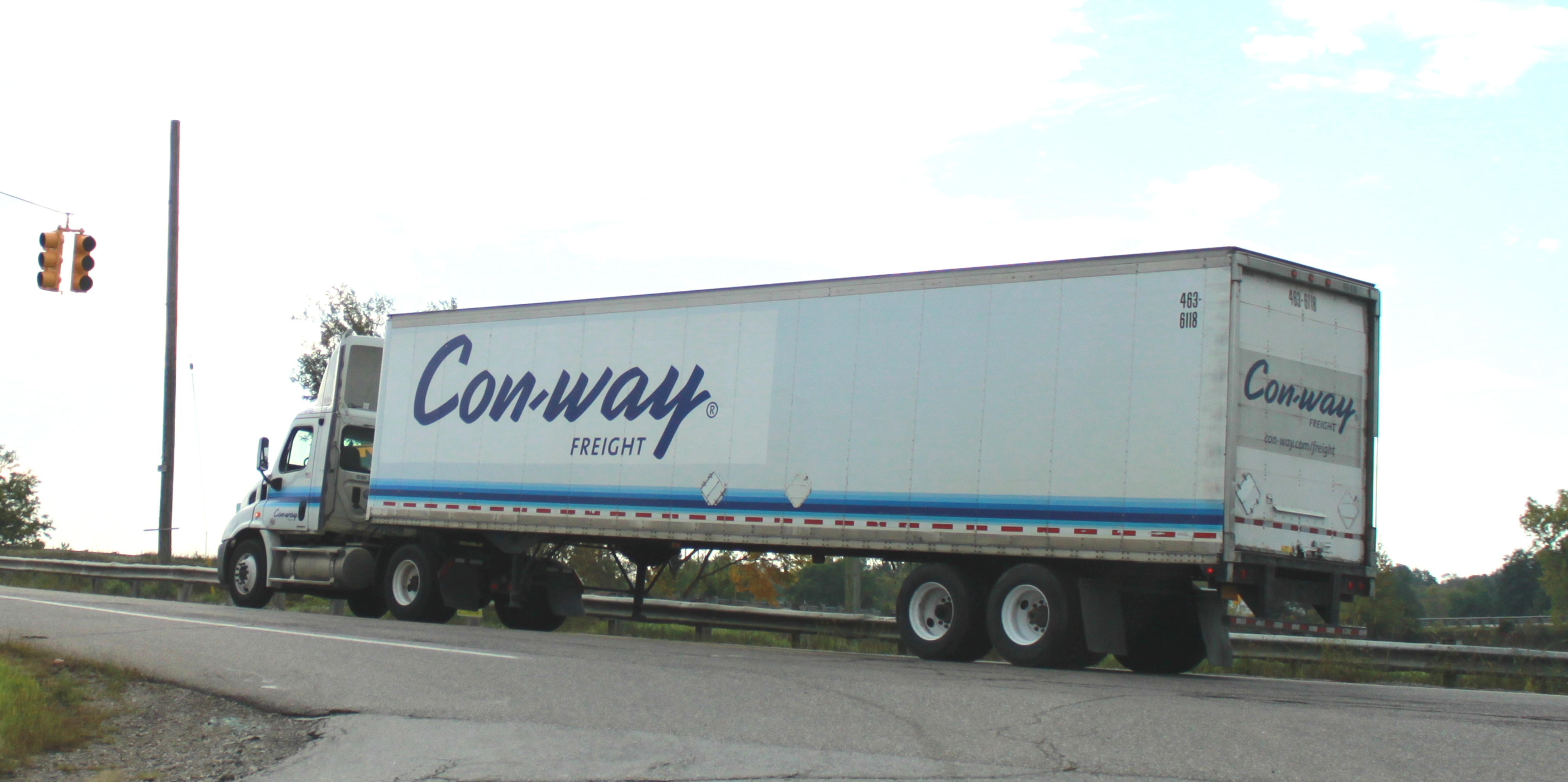 Con-way Freight truck, Eight Mile Road at Whitmore Lake Road, Whitmore Lake, Michigan